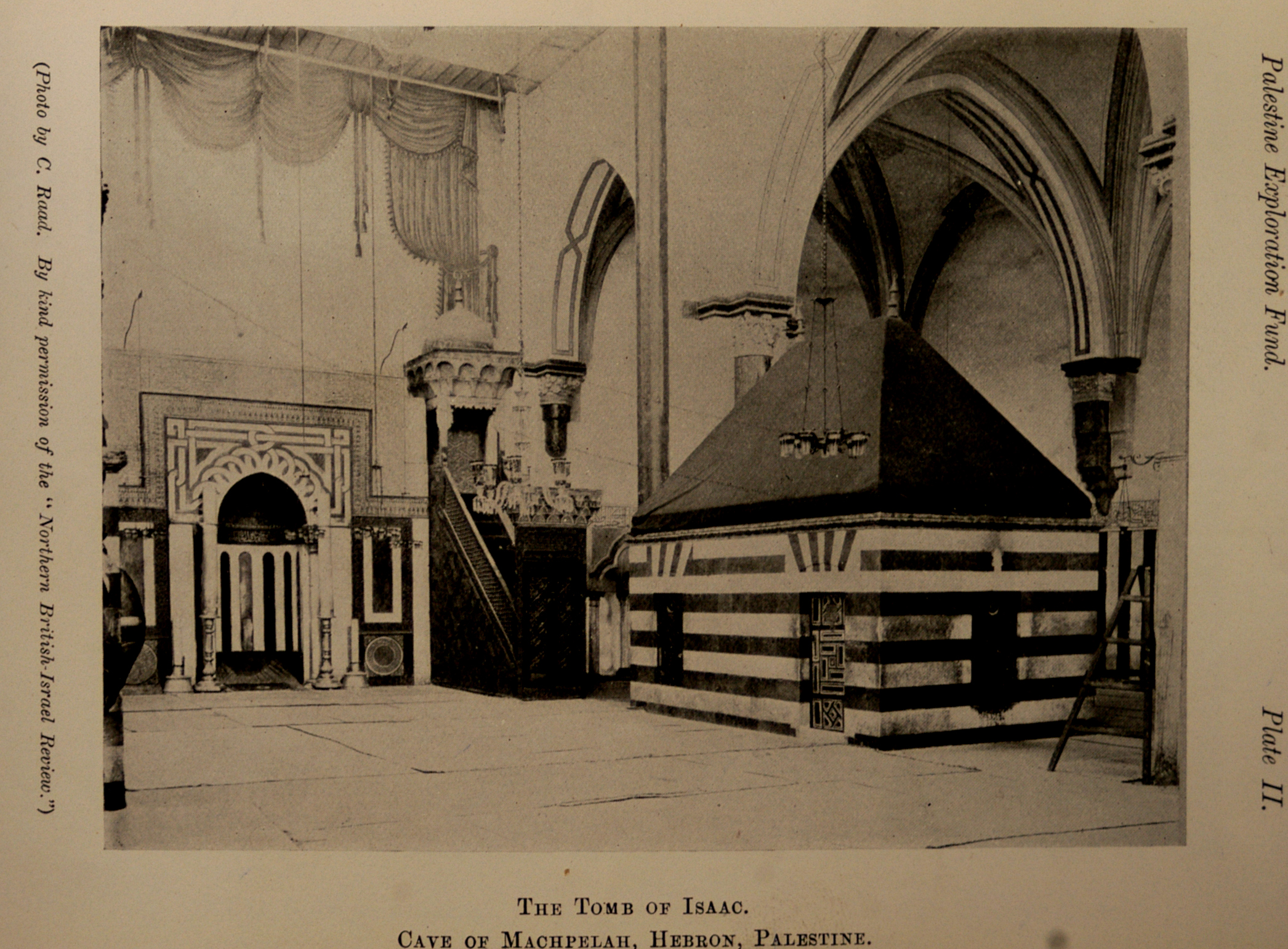 The Tomb of Isaac. Cave of Machpelah, Hebron, Palestine.